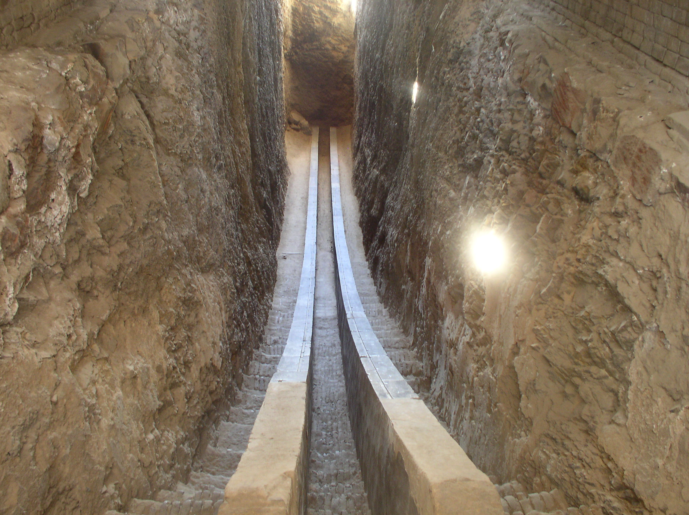 Observatory built by Ulugh Beg in Samarkand, the Timurid Empire (15th century) — present day Uzbekistan